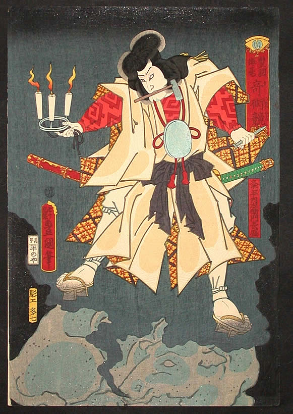 woodblock print by Utagawa Kunisada I, here signing ’nanajūkyū sai Toyokuni ga'; series ’A contest of magic scenes by Toyokuni'; the actor Onoe Kikugorō III as Kume no Heinaizaemon Nagamori; publisher: Hiranoya Shinzō